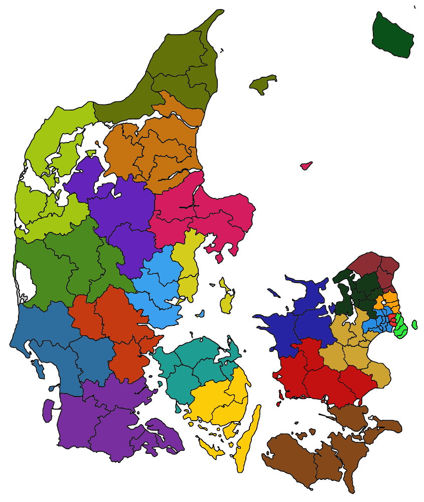 Judicial districts of Denmark